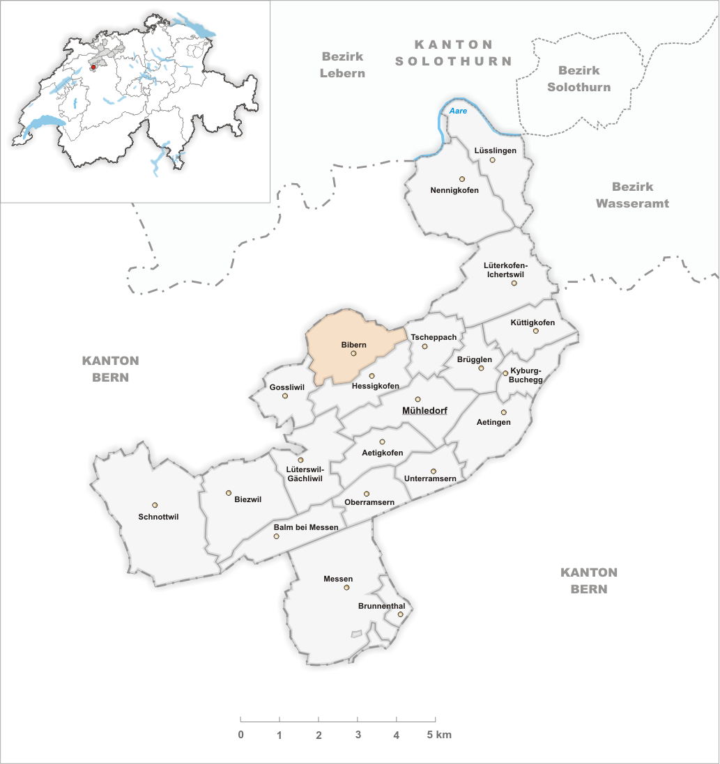 Municipality Bibern